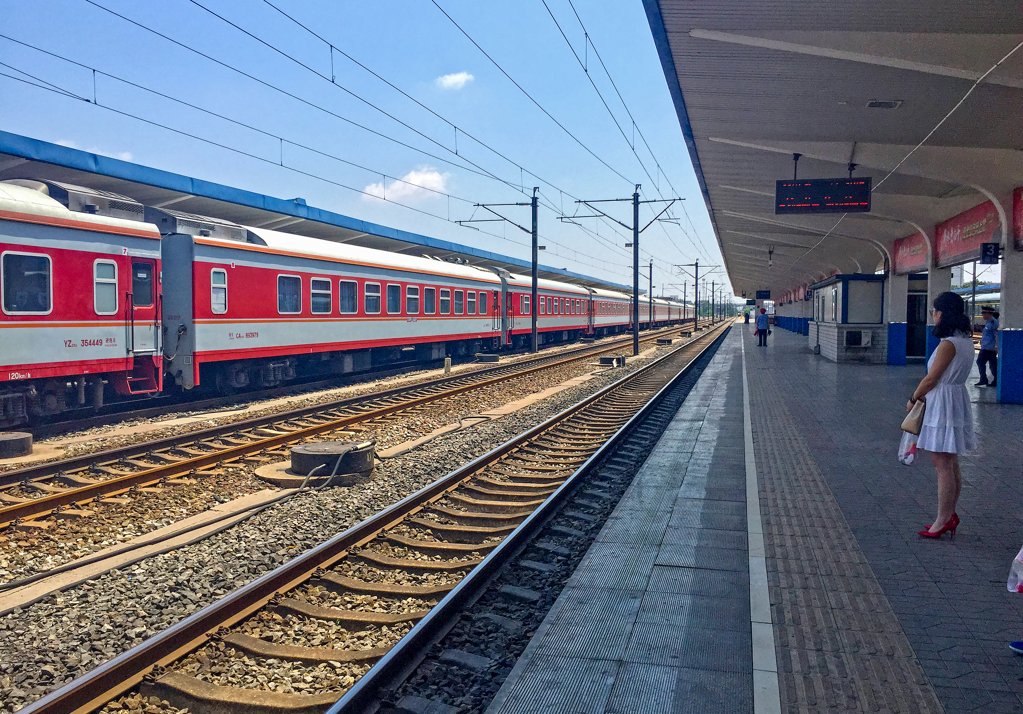 4481 is arriving, while Y503 was still holding.